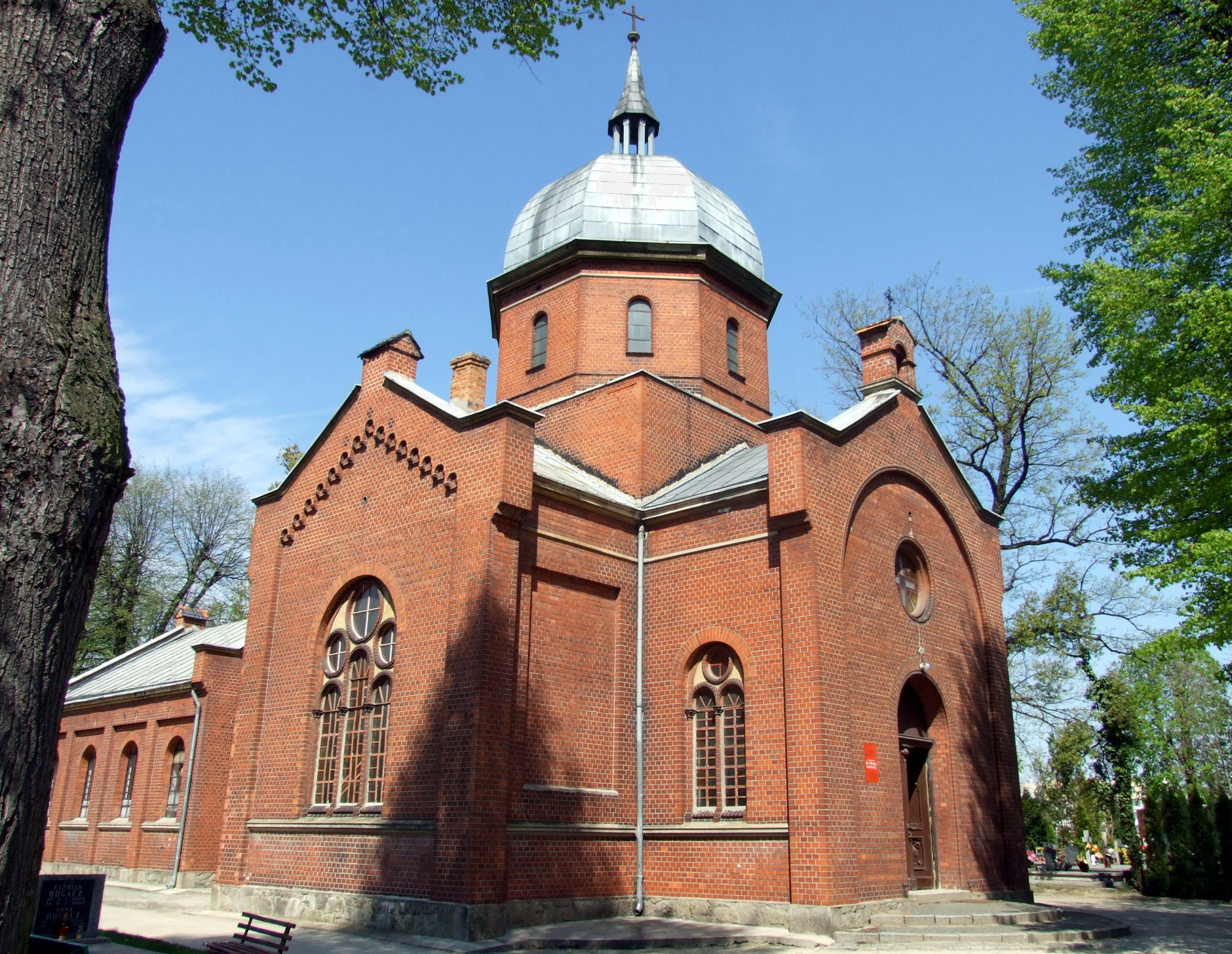 Church of St. Nicholas in Świdnica, Poland